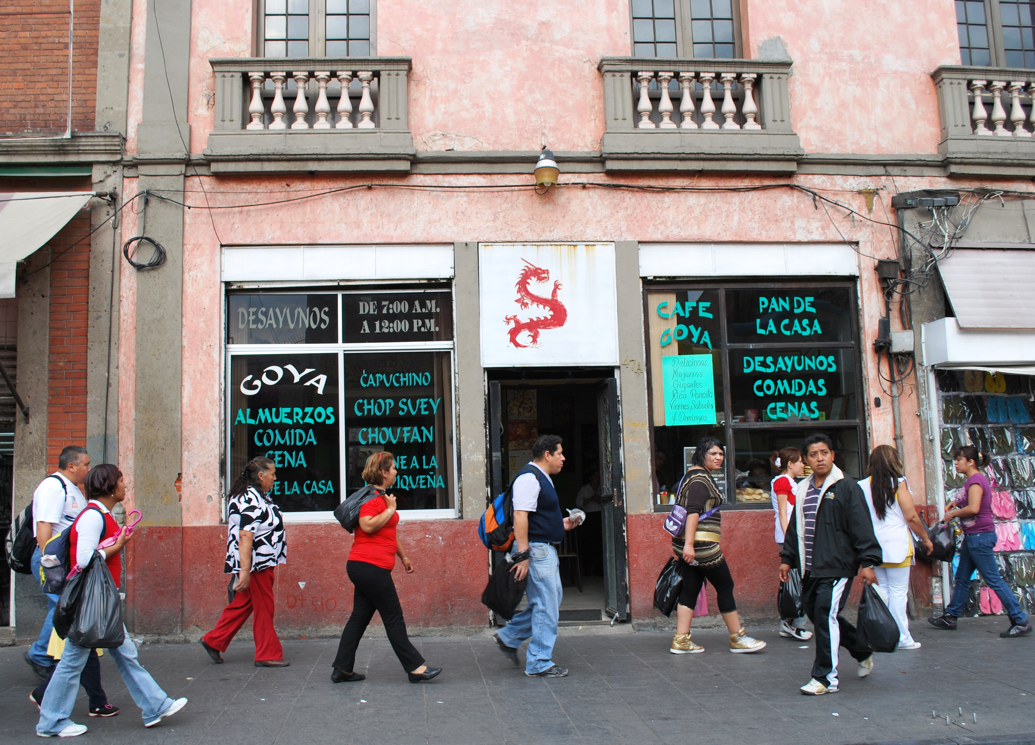 Chinese "cafe" on Rep de Argentina Street in the historic center of Mexico City.